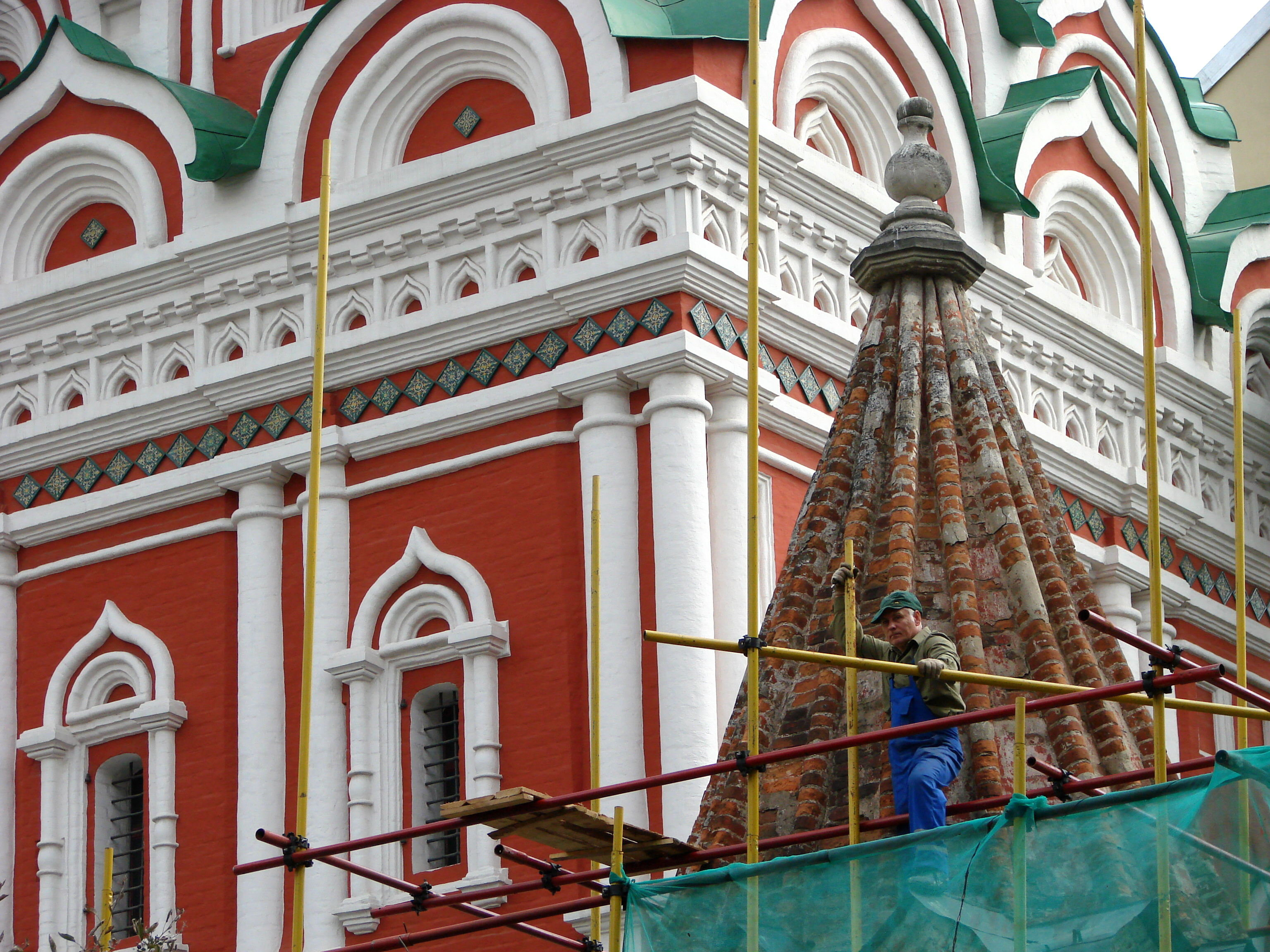 Holy Trinity Church in Nikitniki. Restoration work in the historic center of Moscow, Russia. June 2008.